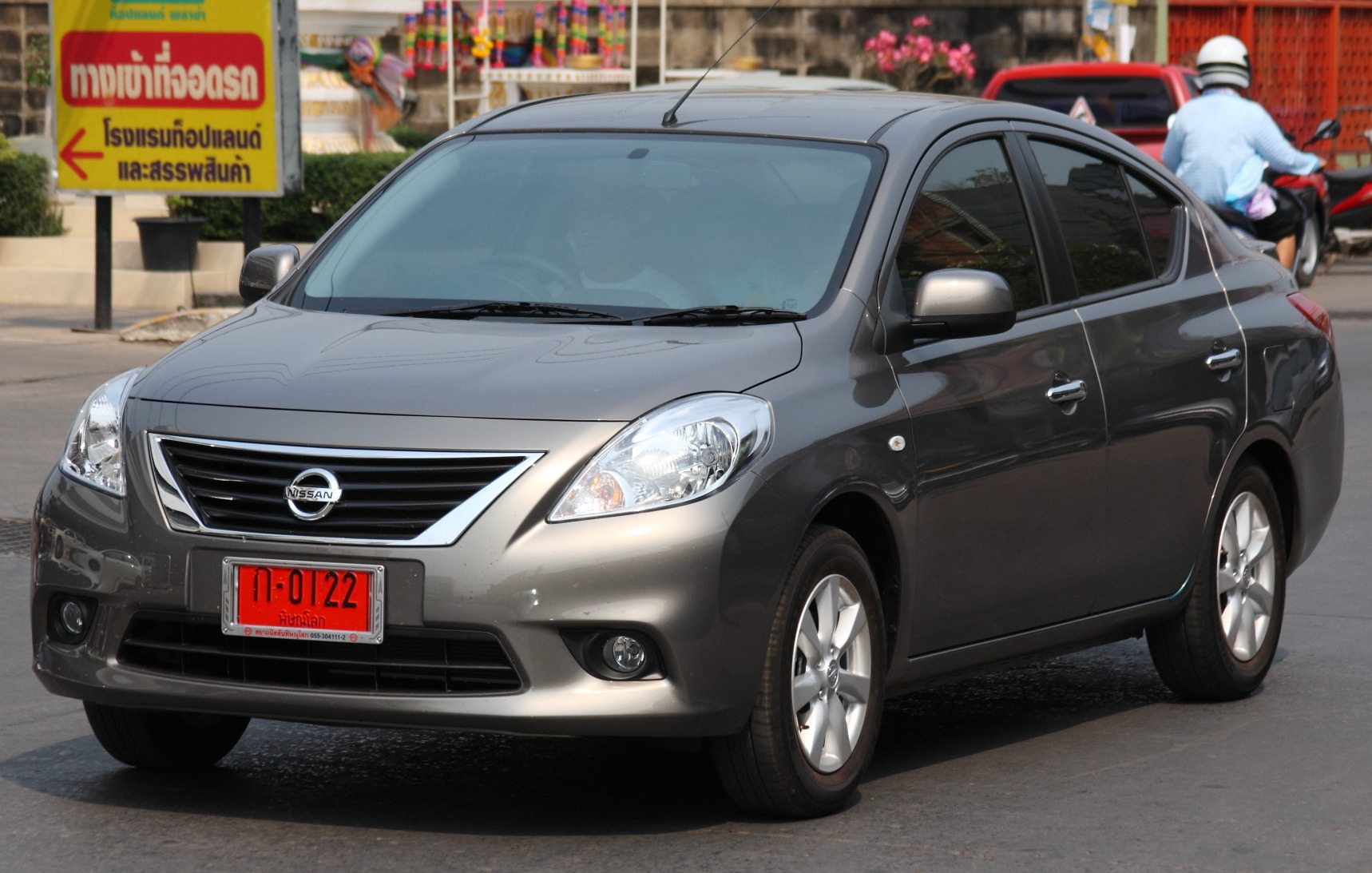 Nissan Almera in Phitsanulok, Thailand